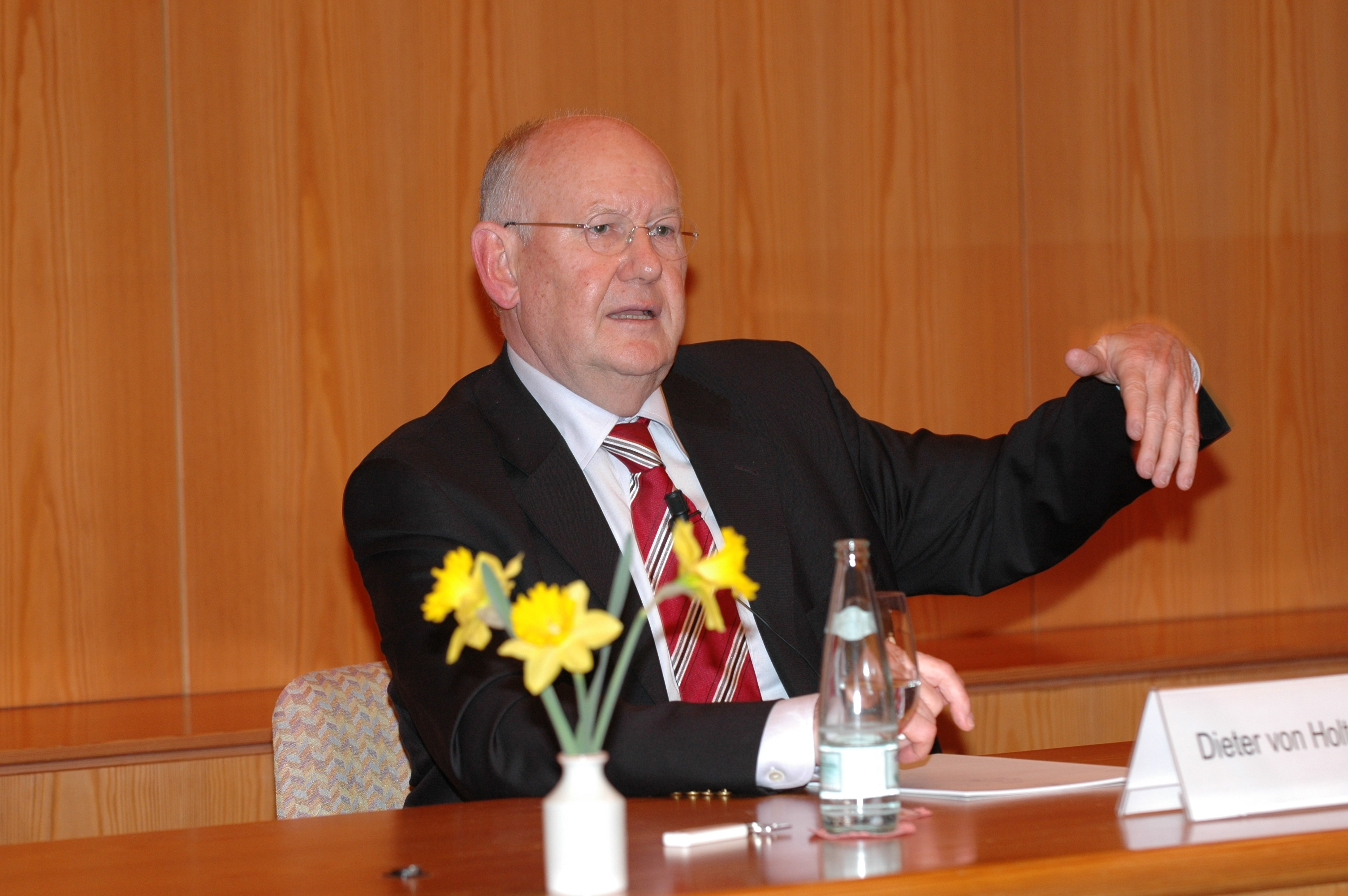 Dieter von Holtzbrinck at Lilienberg Unternehmerforum